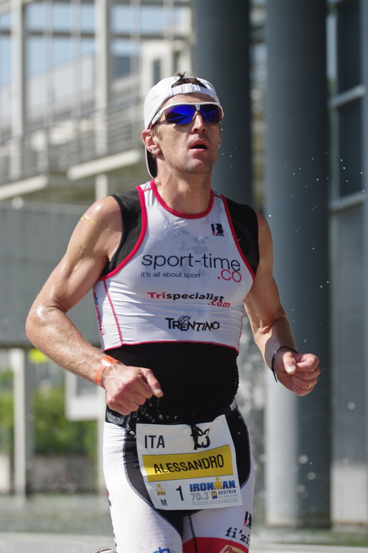 Italian triathlete Alessandro Degasperi in the Ironman 70.3 Austria on 20 May 2012 in St. Pölten.